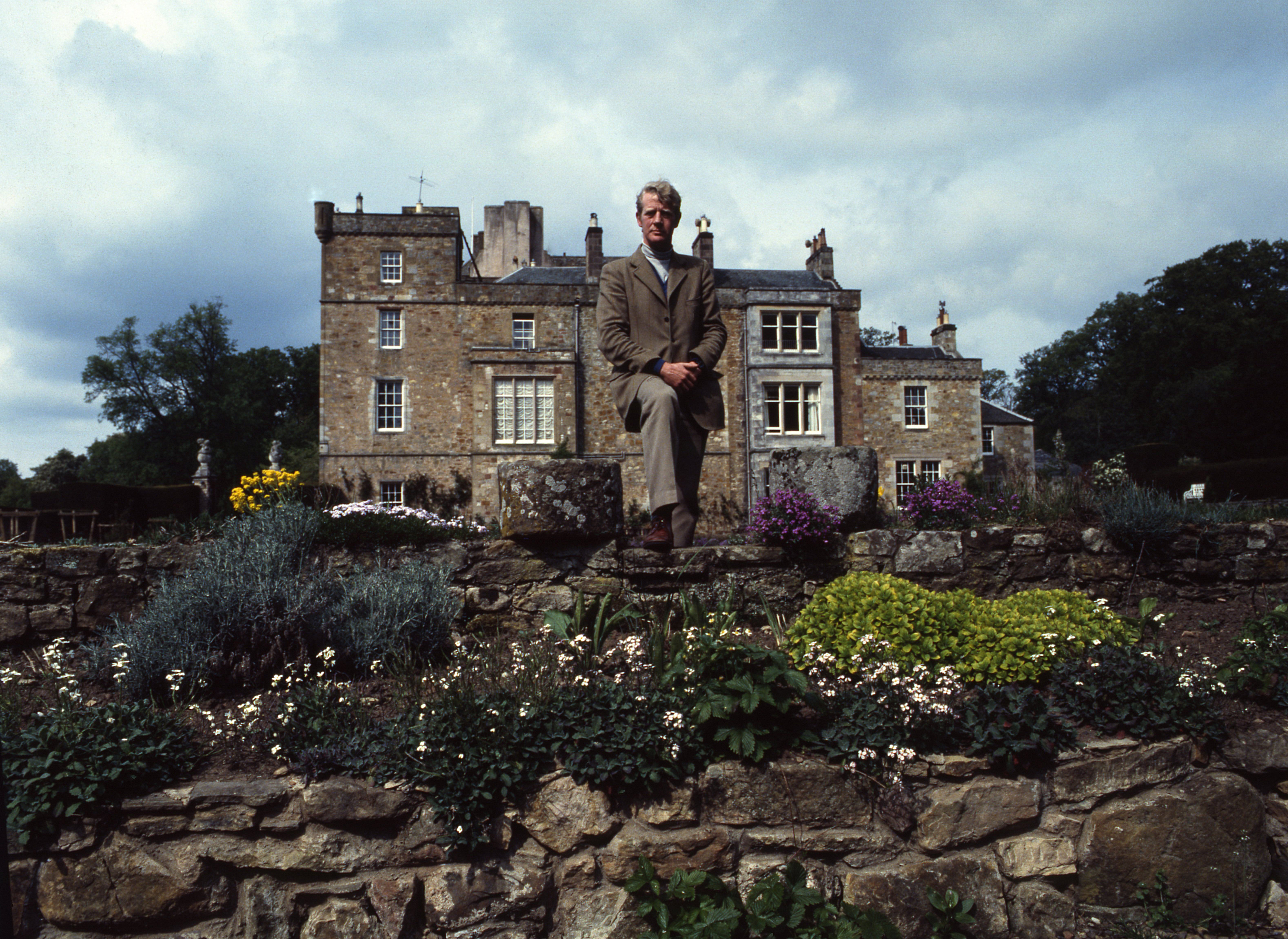 Angus Alan the 15th Duke of Hamilton and 12th Duke of Brandon outside Lennoxlove House, Scotland.